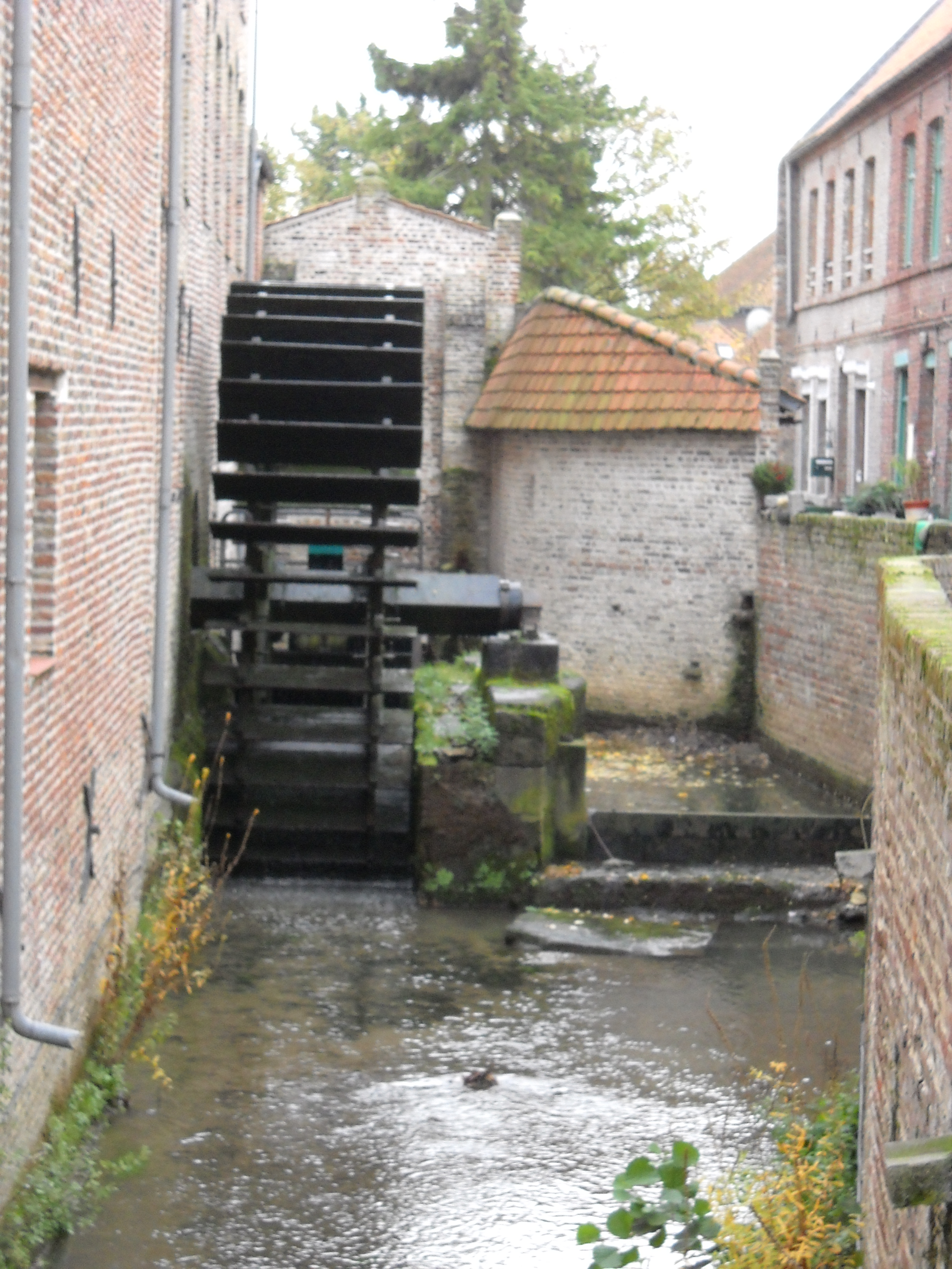 An old mill in Aire-sur-la-Lys, Pas-de-Calais, France.